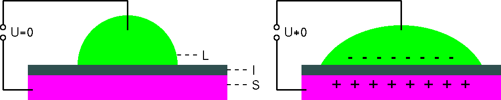 electro wetting